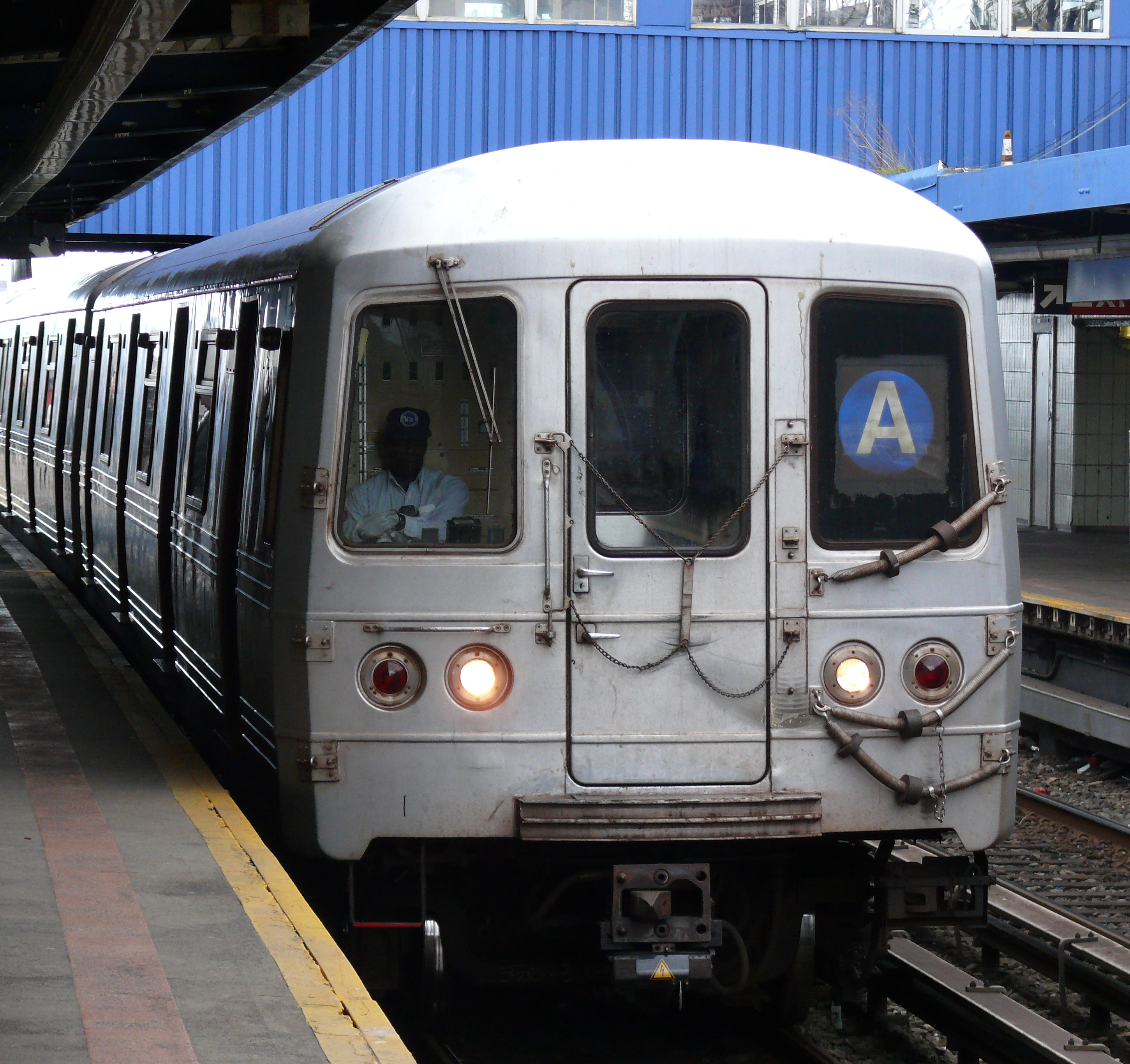 A train in Broad Channel.